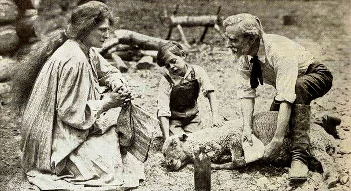 Still from the 1919 American drama film The Shepherd of the Hills (1919) with Catherine Curtis as Sammy Lane, C. Edward Raynor as Little Pete, and Harry Lonsdale (1865 – 1923) as the Shepherd, on page 6 of the September 1920 Moving Picture Age. This is the only listed film in the IMDB for Curtis and Raynor.